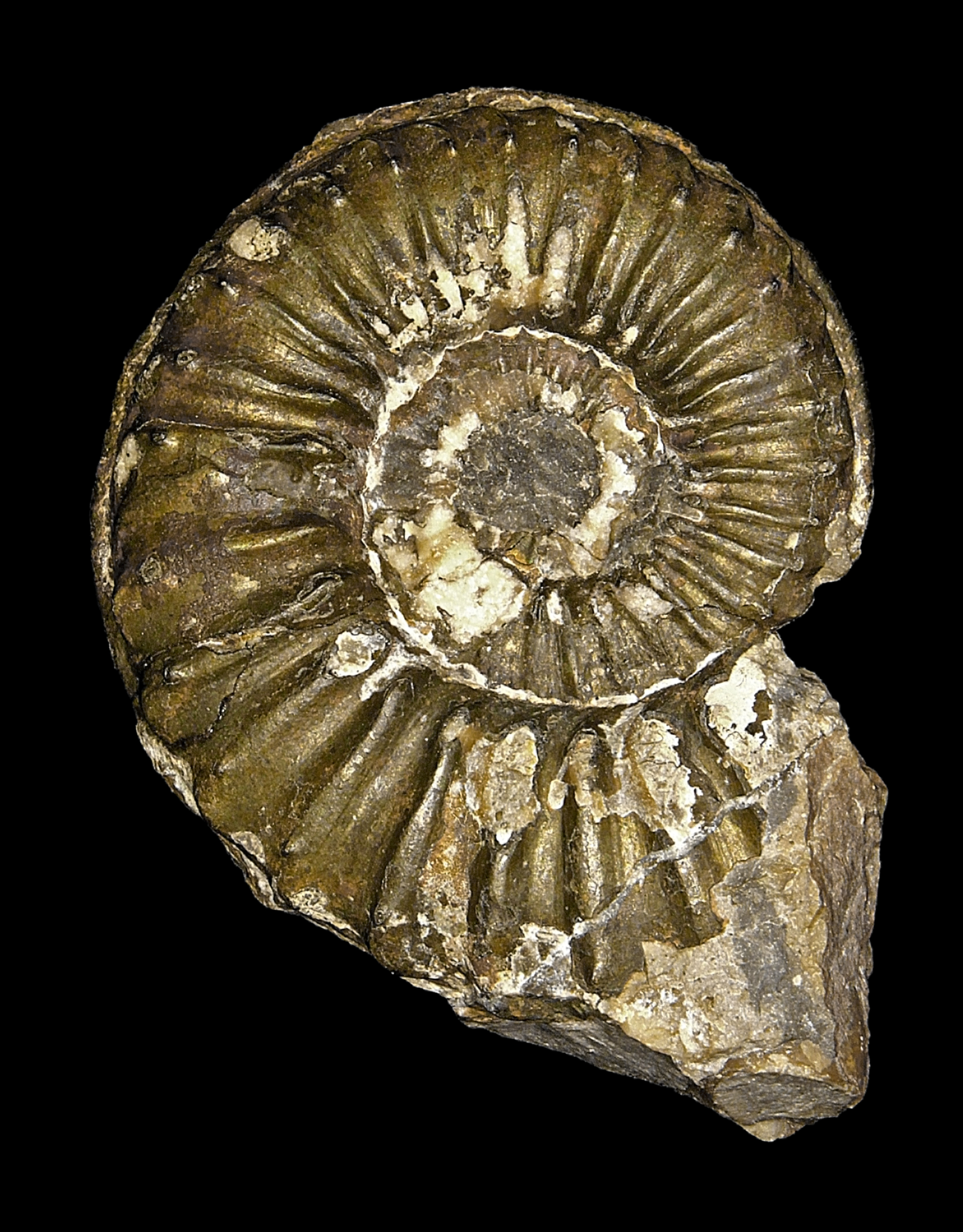 Pleuroceras hawskerense, Amaltheidae; Diameter 5 cm; Upper Pliensbachian, Lower Jurassic; Switzerland (from an old collection); own collection, therefore not geocoded.